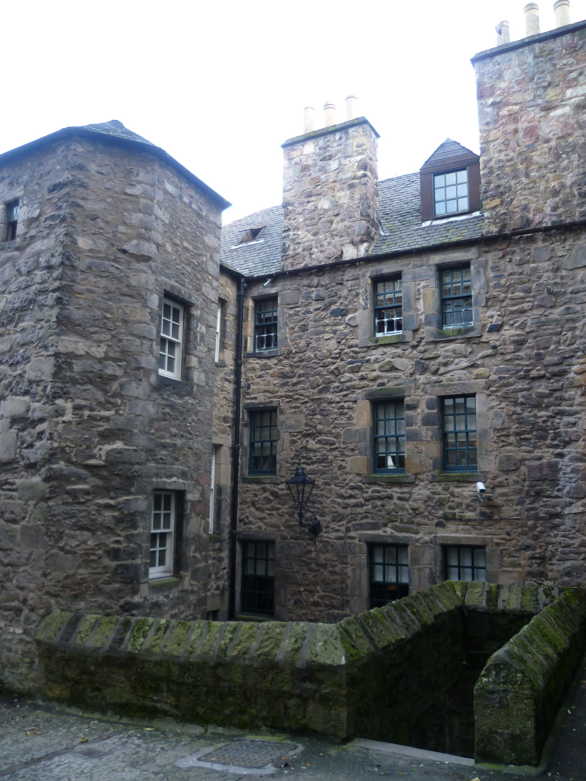 Sempill's House in Semple's Close off Castlehill